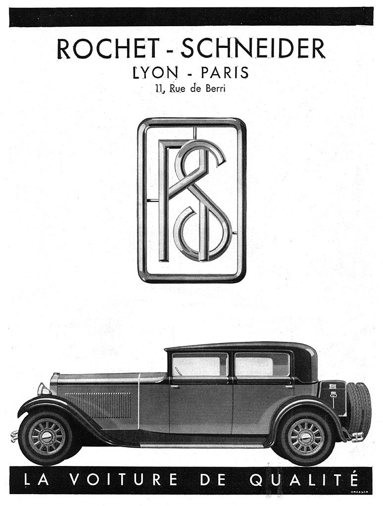 1930 ad for French car Rochet-Schneider